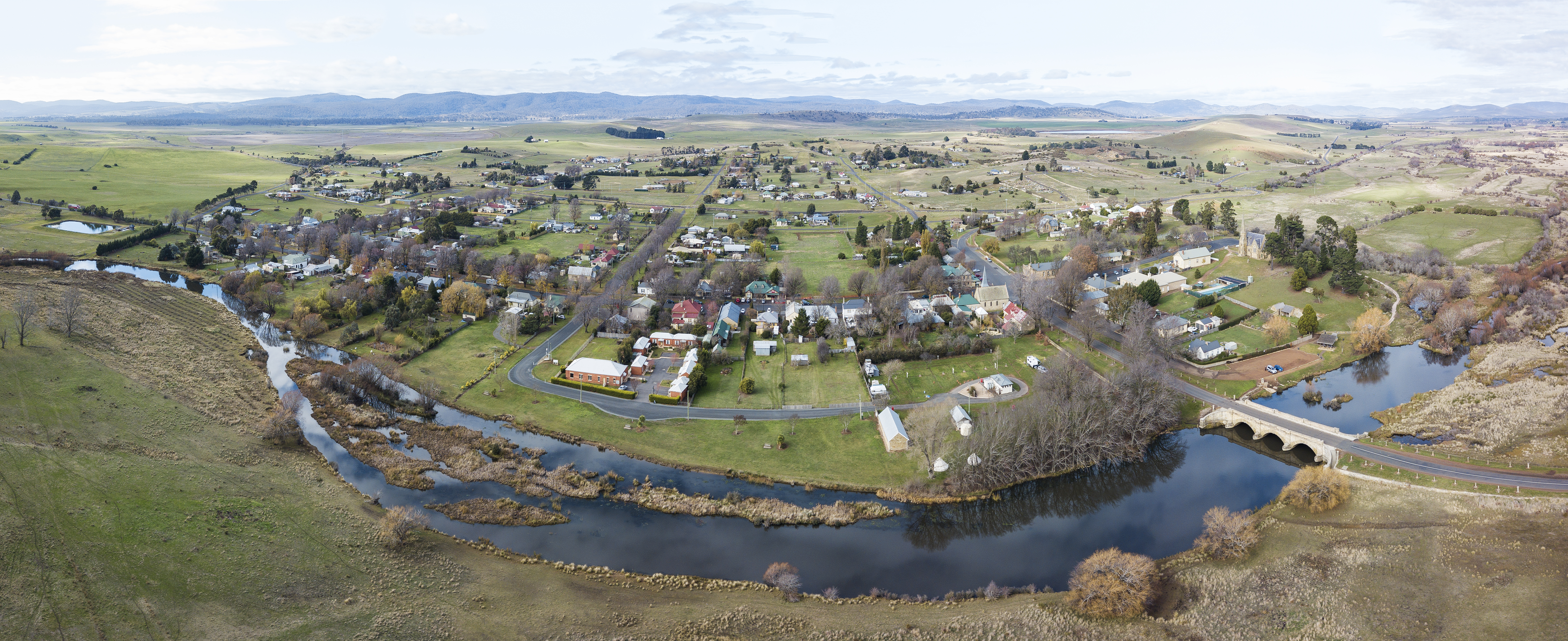 aerial panorama ross tasmania 2018